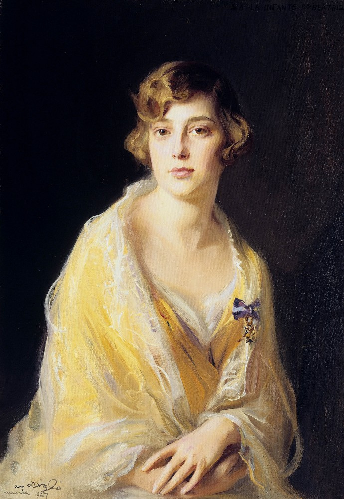 The Infanta doña Beatriz de Borbón y Battenberg (1909-2002); daughter of Alfonso XIII